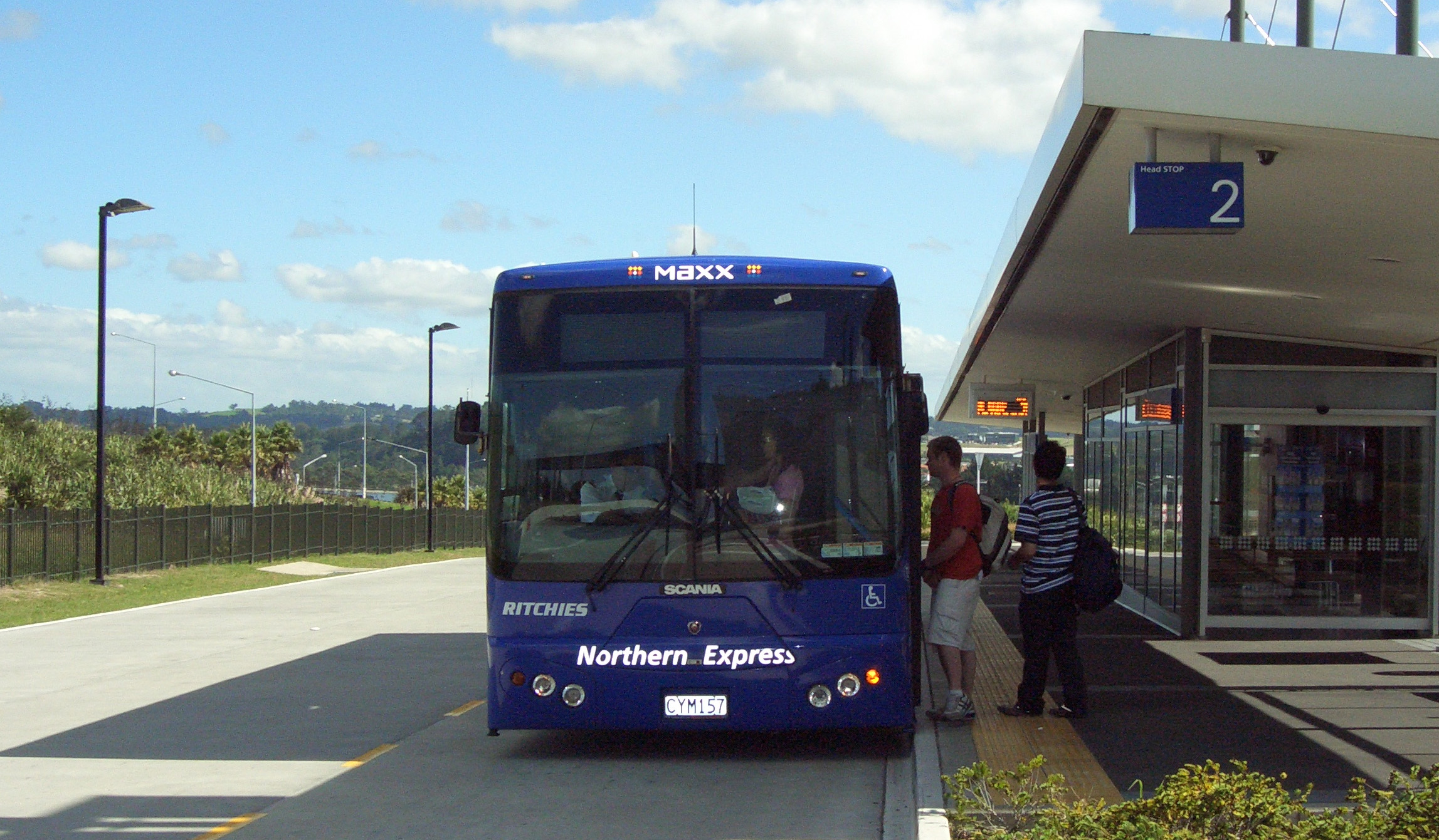 Auckland's Northern Busway adjacent to the Northern Motorway, State Highway 1. Passengers boarding a 'Maxx Northern Express' service operated by Ritchies Coachlines.